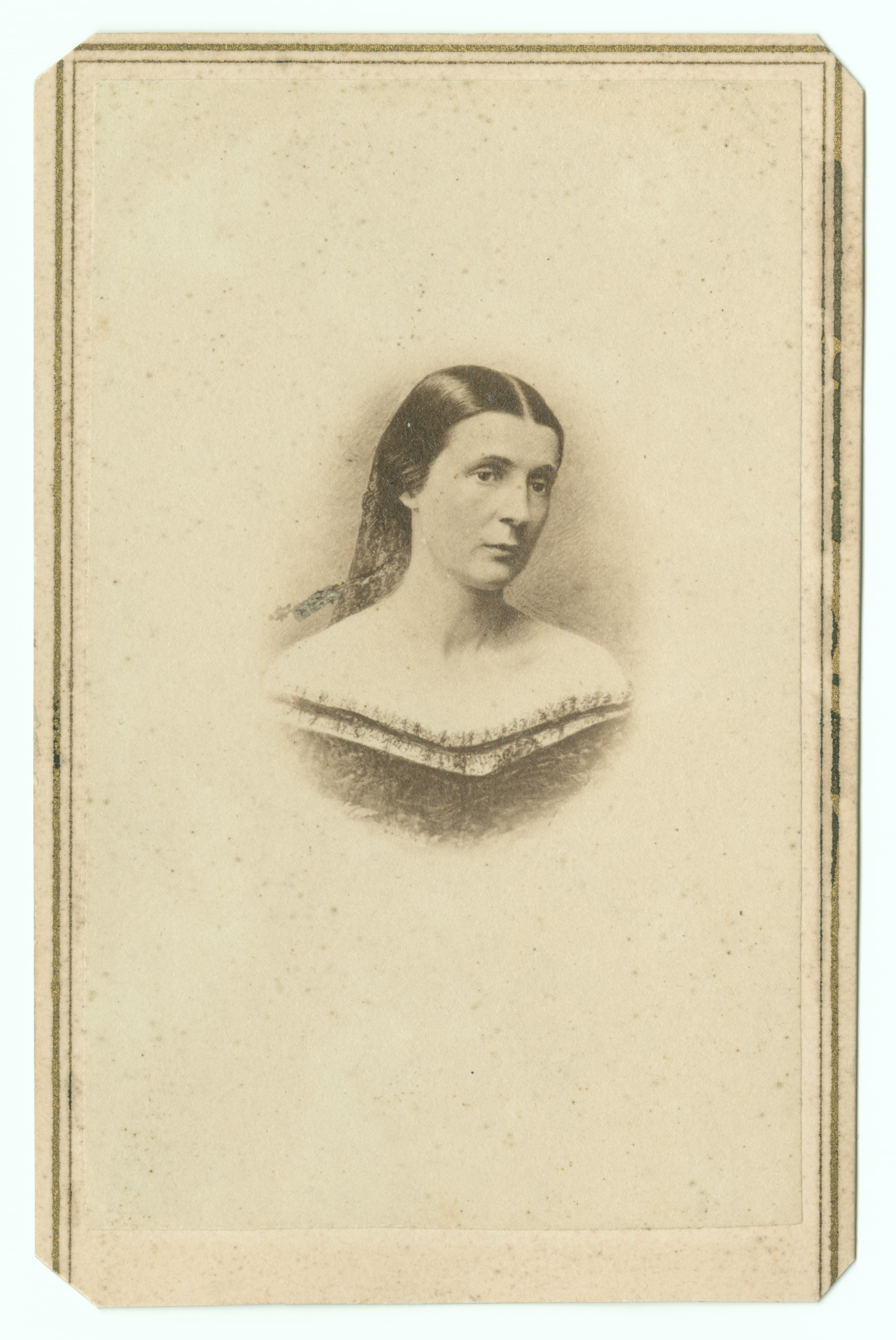 Rose O'Neal Greenhow